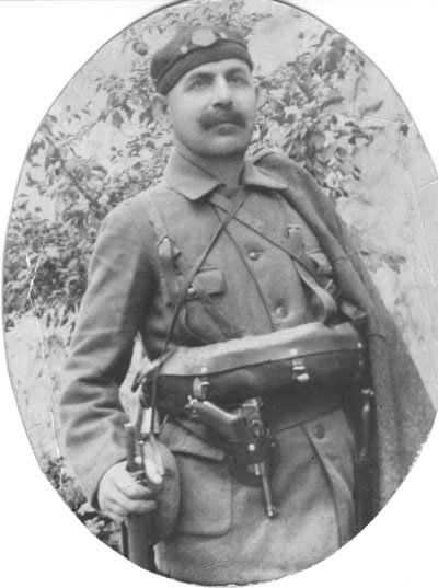 Bulgarian revolutionary Andon Popshterev from IMRO, born in Dambeni